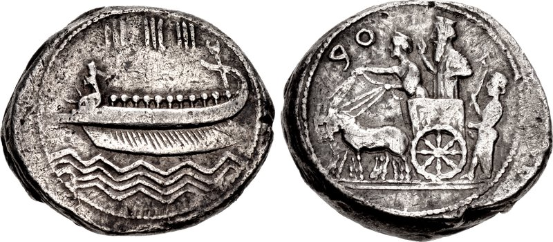 PHOENICIA, Sidon. `Abd`aštart (Straton) I. Circa 365-352 BC. AR Dishekel (31mm, 25.65 g, 11h). Dated RY 9 (357/6). Phoenician galley left; ||| || (9 in Phoenician) above, waves below / King of Persia and driver in chariot drawn by two horses left; behind, King of Sidon standing left, in Egyptian dress, holding cultic scepter and votive vase; ‘B (in Phoenician) above. E&E-S Group IV.2.1.i, – (unlisted dies); HGC 10, 242; DCA 849; BMC 76; Rouvier 1141. VF, lightly toned, minor roughness. Very rare date, 11 recorded by E&E, but none in CoinArchives.